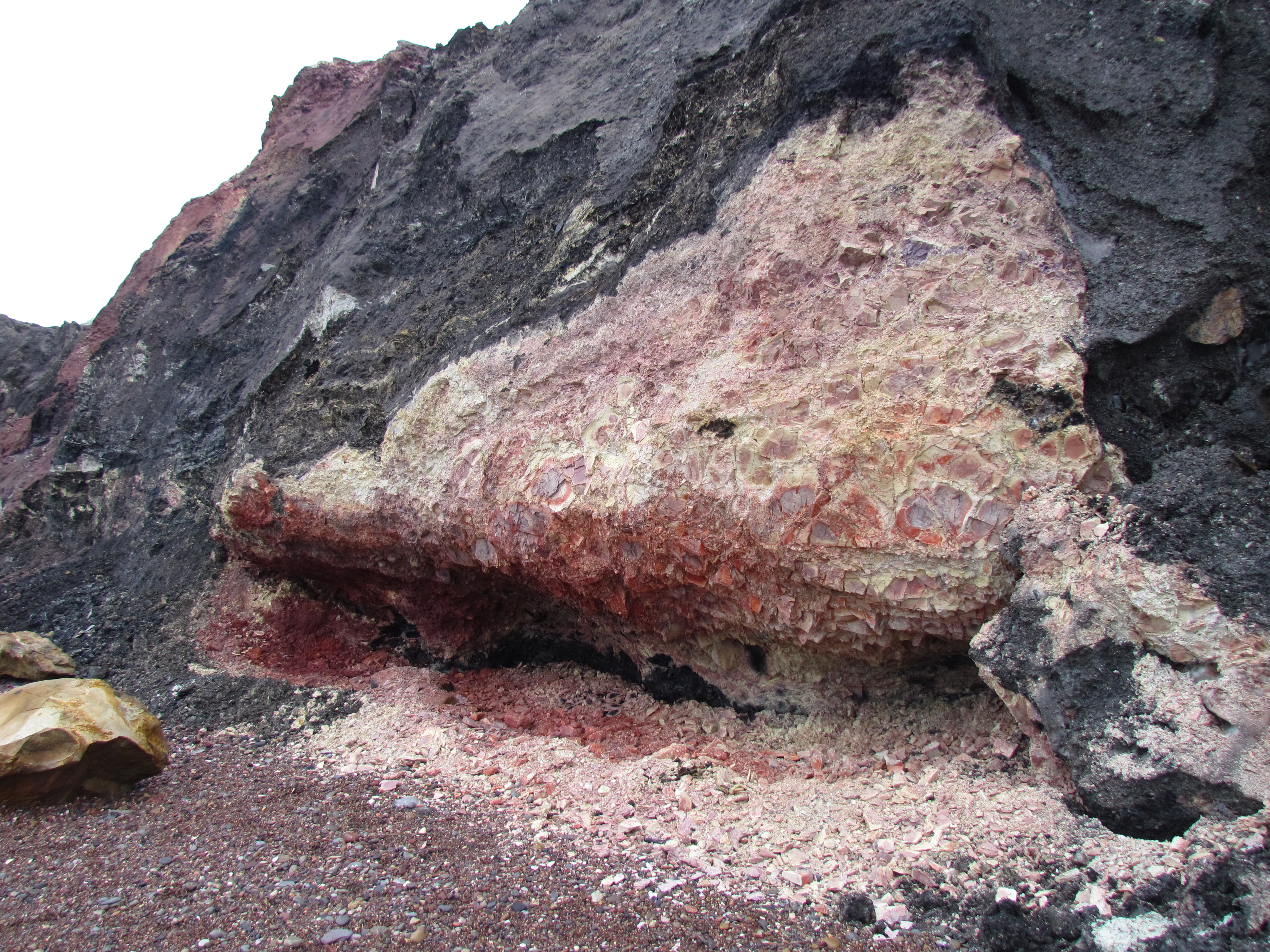 Eroding mud face continuously exposes new multi-coloured minerals from the Smoking Hills lignite deposits in Canada's Northwest Territories.